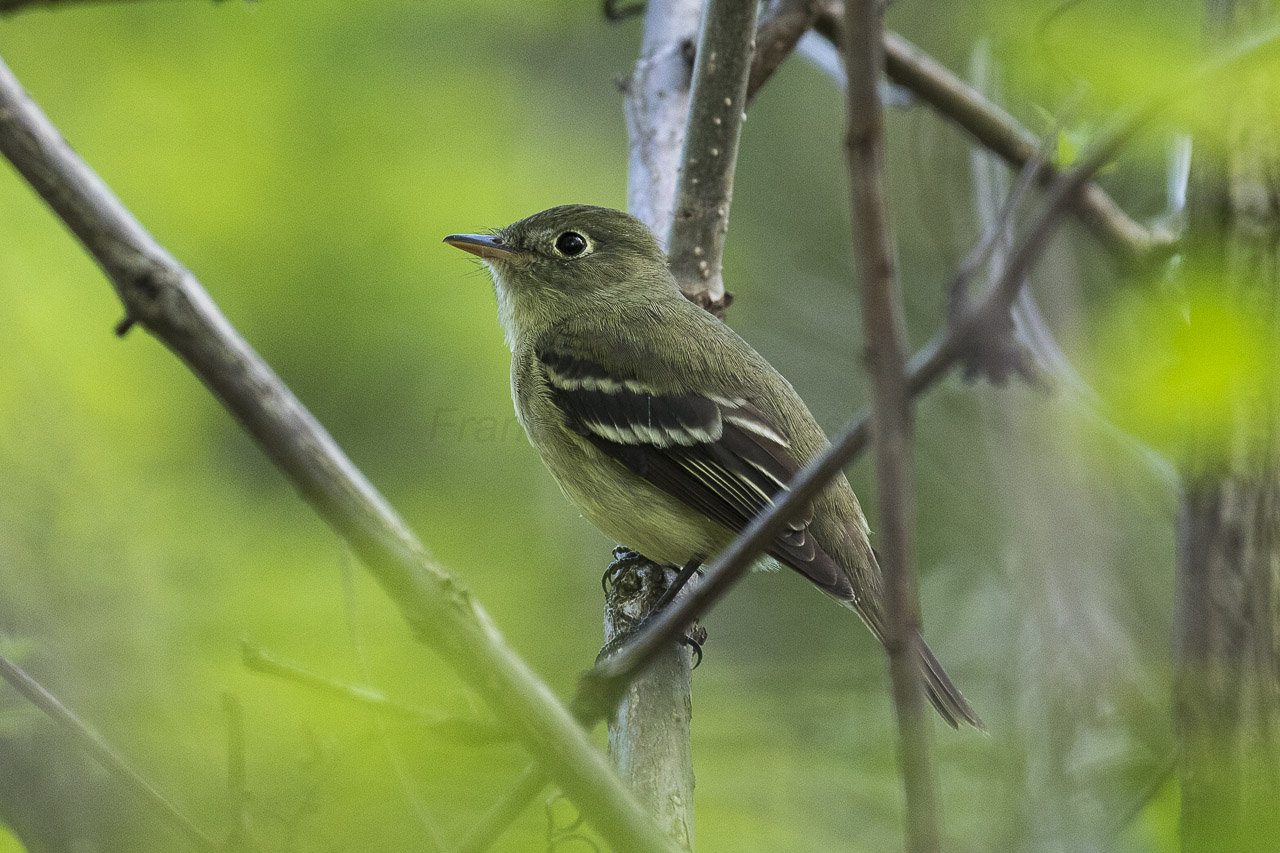 Least Flycatcher - Magee Marsh - Ohio FJ0A9456